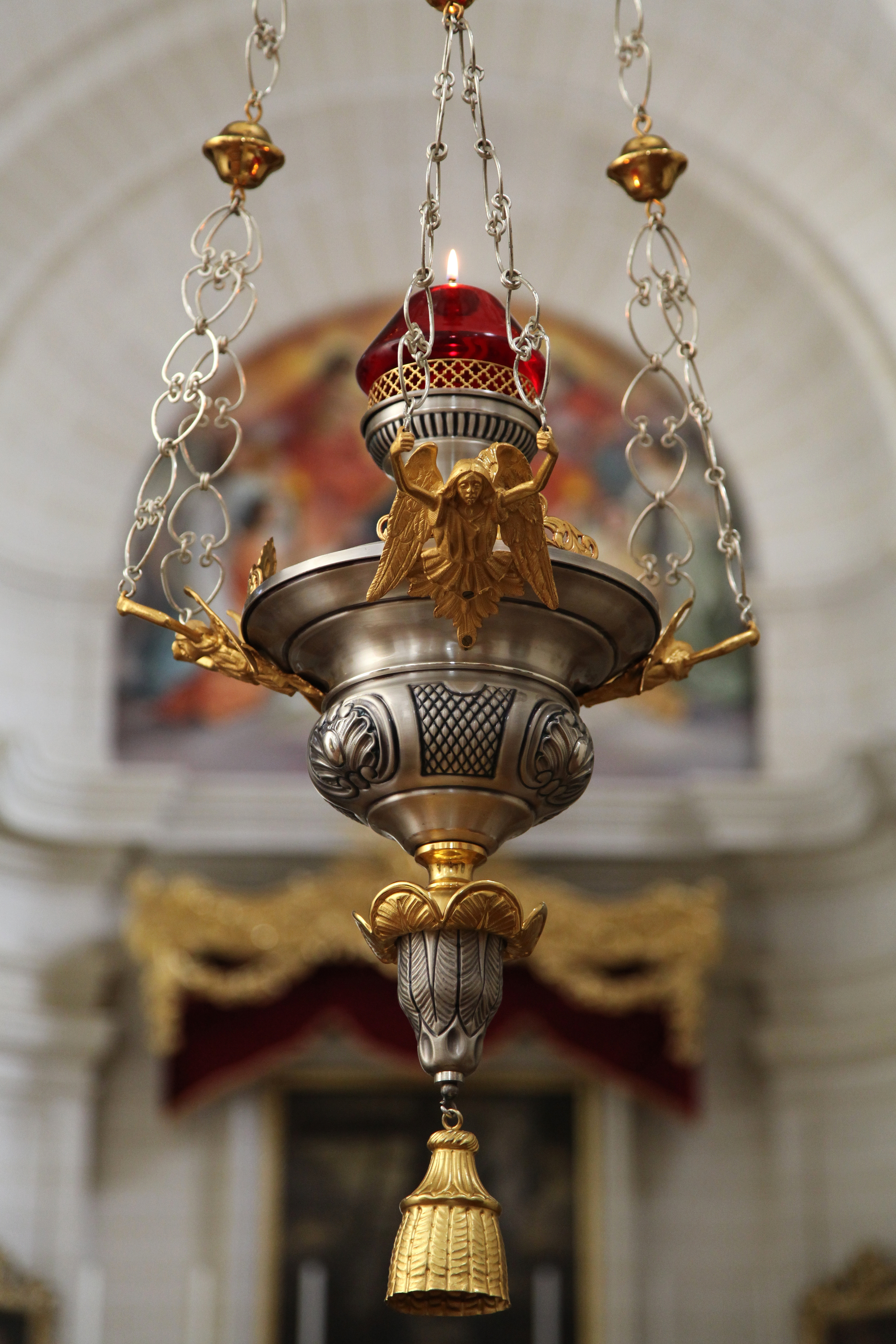 Mater Dolorosa Parish Church at Triq San Pawl in St. Paul's Bay, Malta